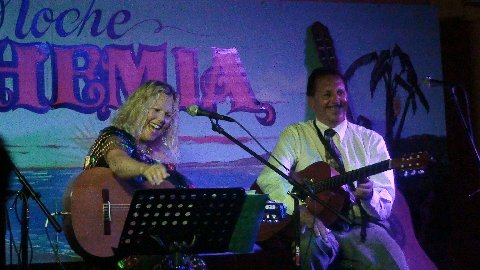 Terri Sharp performing